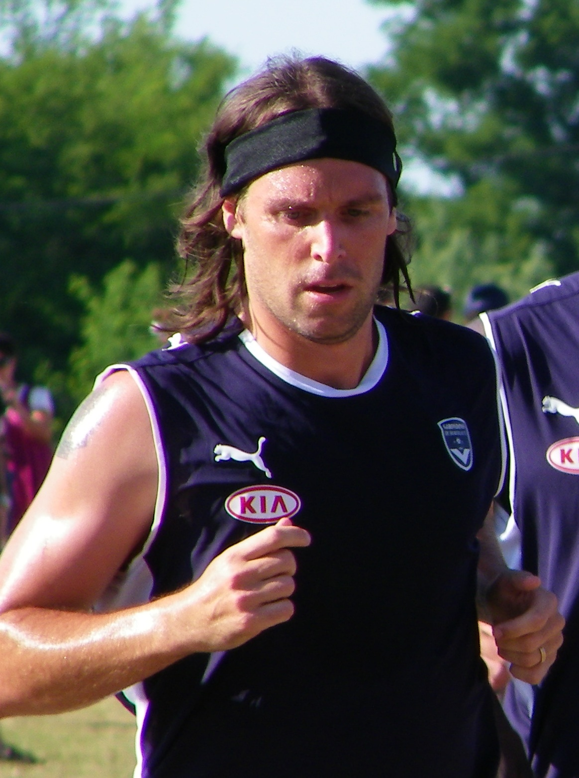 Cavenaghi